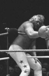 Big John Studd during a match. Cropped from original.